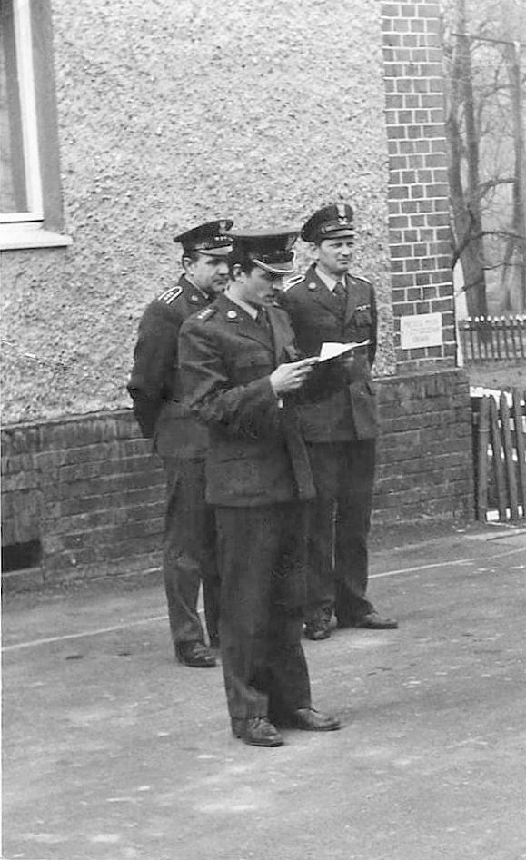 Border Protection Forces in Równe